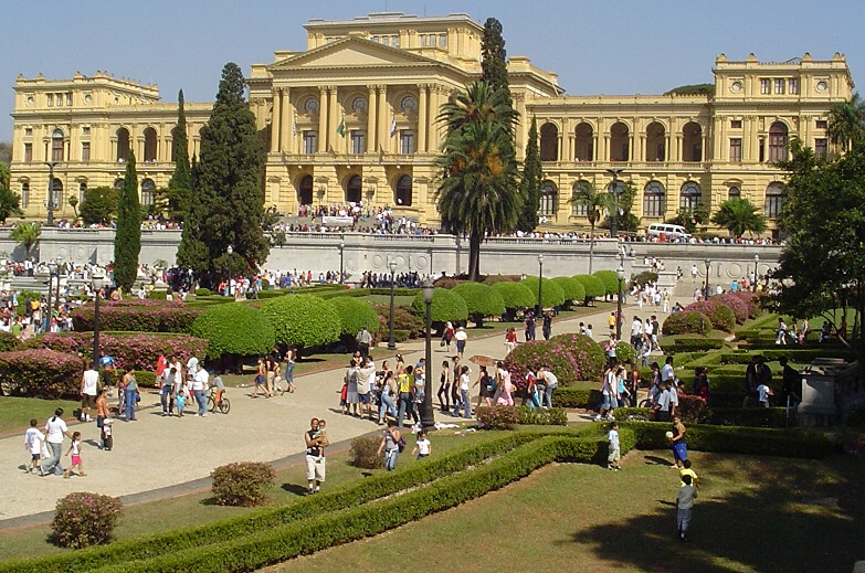 Paulista Museum in Ipiranga neighborhood during the celebration of Brazilian independence day